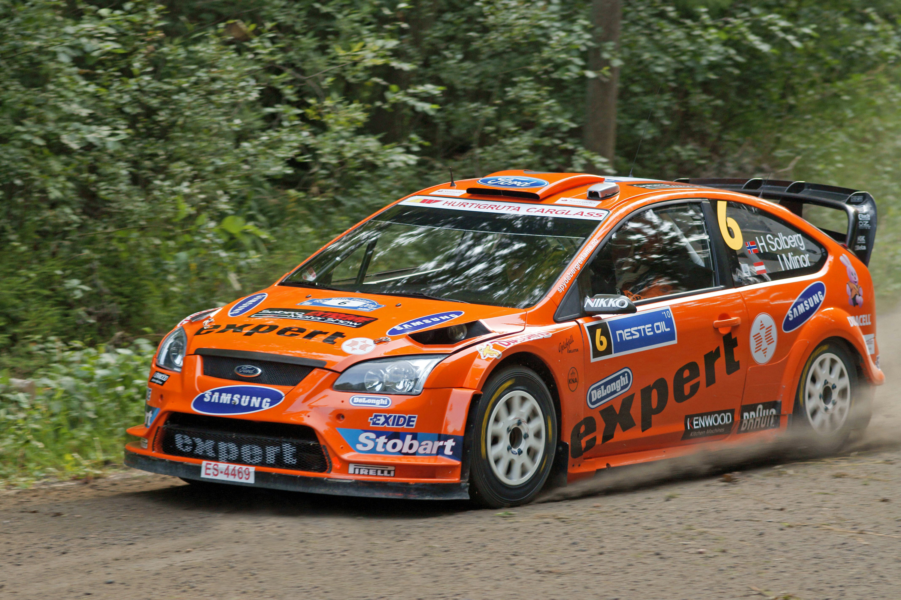 Henning Solberg driving at Rannakylä shakedown in Muurame.